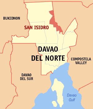 Map of the Davao del Norte showing the location of San Isidro